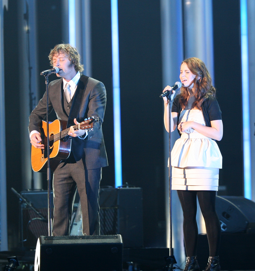 Nobel Peace prize Concert 2008, Oslo Spektrum, Dierks Bentley and Marit Larsen